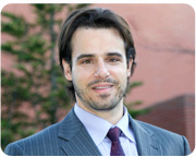 スティーブ・ソレイシィ＠ソレイシィ研究所